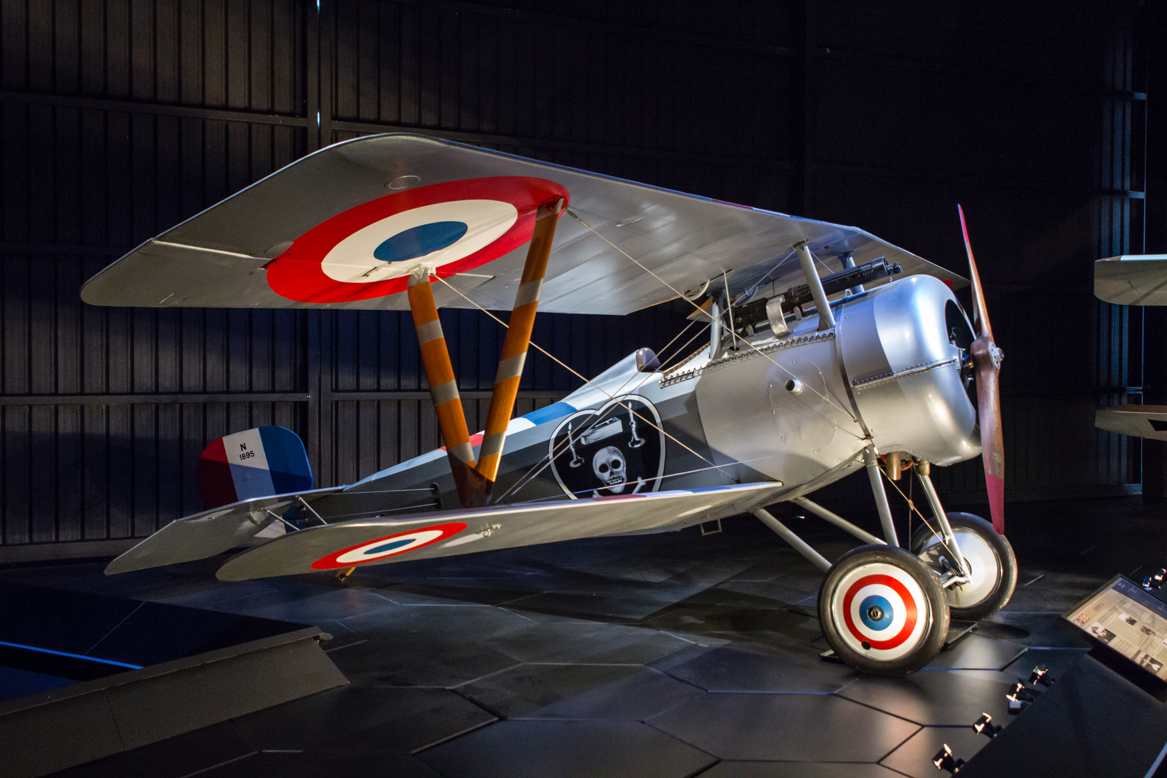 Nieuport 24 at the Omaka Aviation Heritage Centre, Blenheim, New Zealand